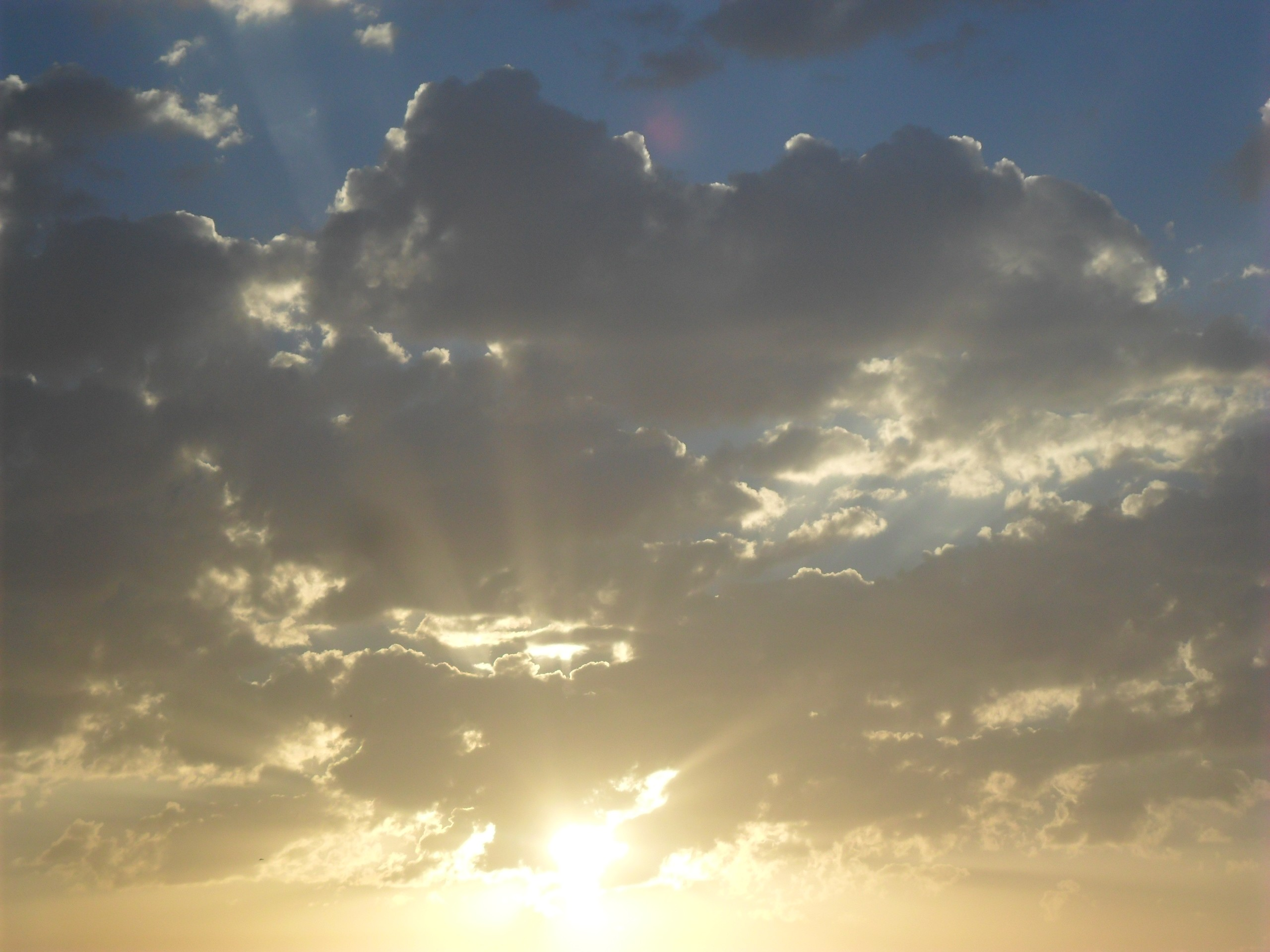 The sky of the city of Riyadh when the sixth hour and fifty-one minutes GMT The weather is cloudy